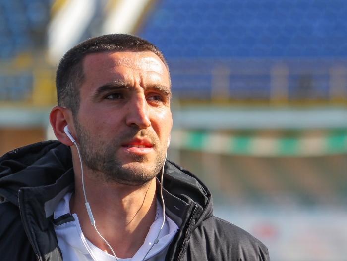 Ardin Dallku is a Kosovan football defender